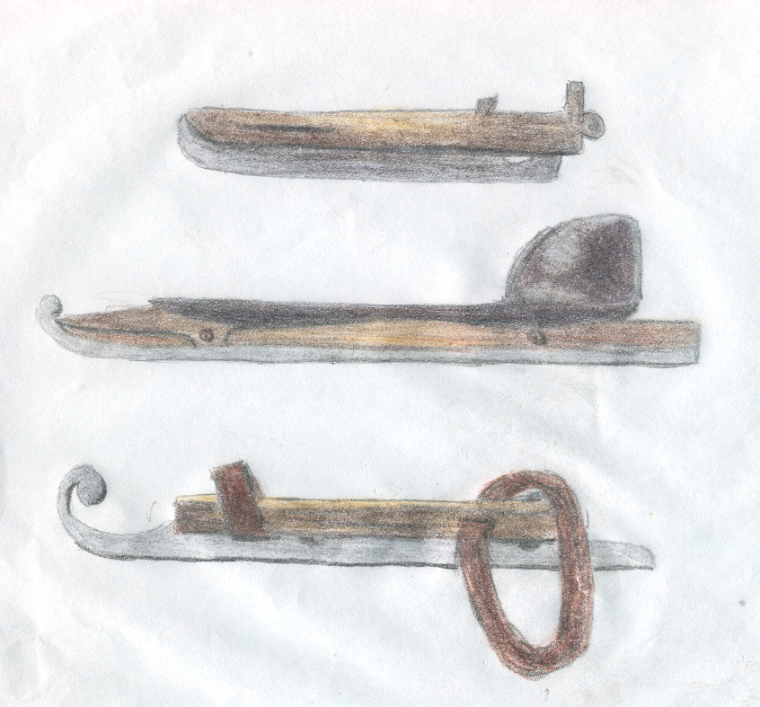 Skates from 19C (drawing) Source: Helena Grigar